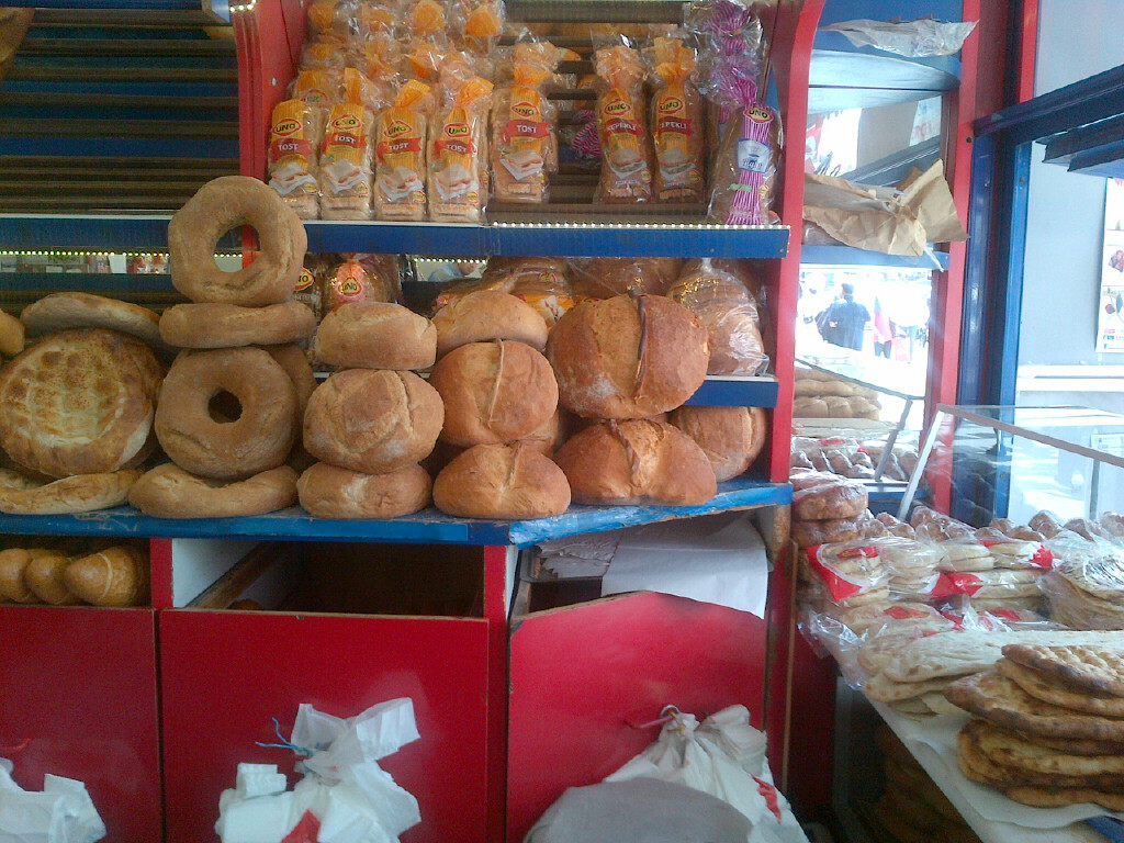 Turkish breads: Pide (left), halka ekmek (centre-left), somun (centre-right), Vakfıkebir bread (right)